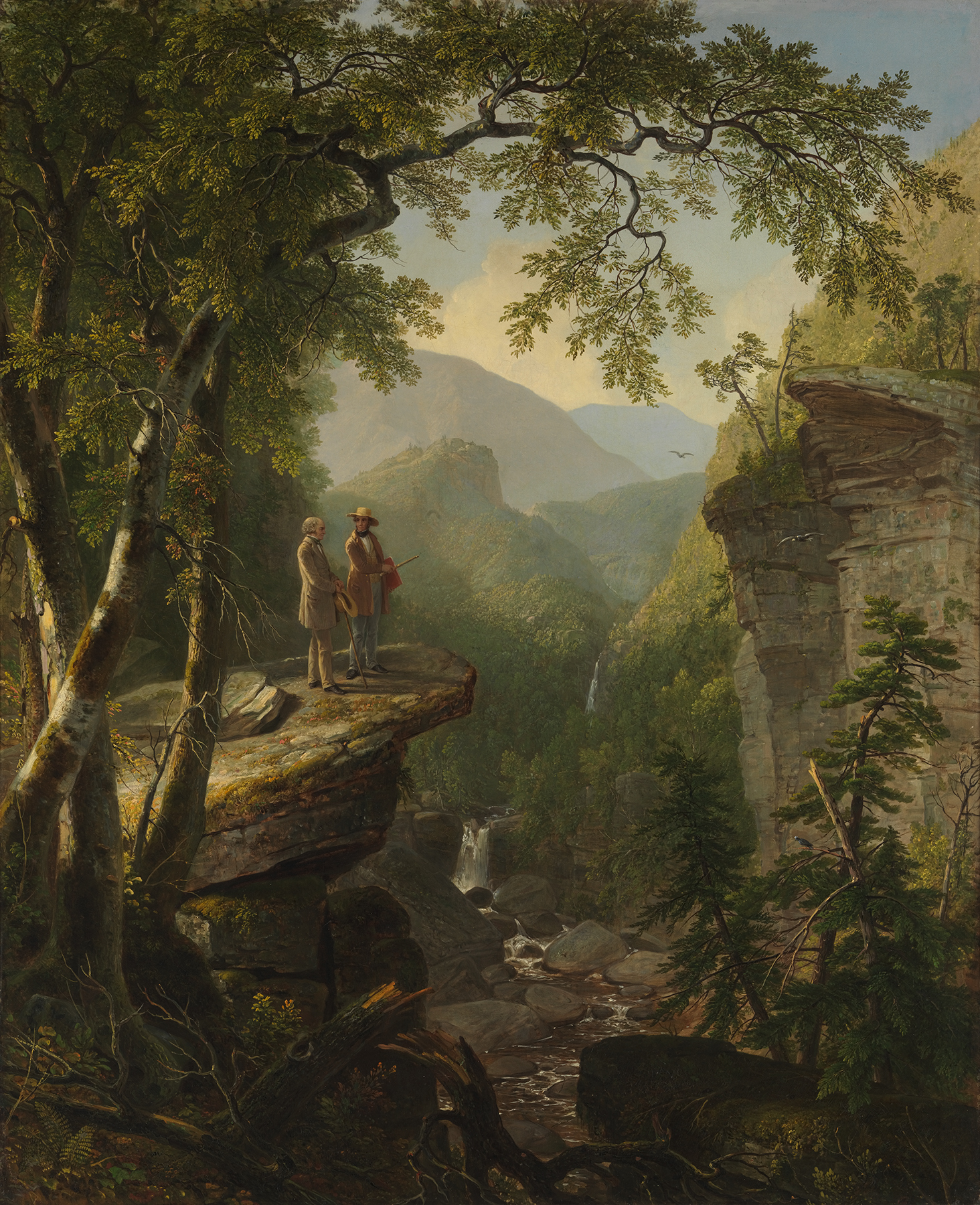 Kindred Spirits was commissioned by the merchant-collector Jonathan Sturges as a gift for William Cullen Bryant in gratitude for the nature poet's eulogy to Thomas Cole, who had died suddenly during early 1848. It shows Cole, who had been Jonathan Sturges mentor, standing in a gorge in Catskills in the company of mutual friend William Cullen Bryant.